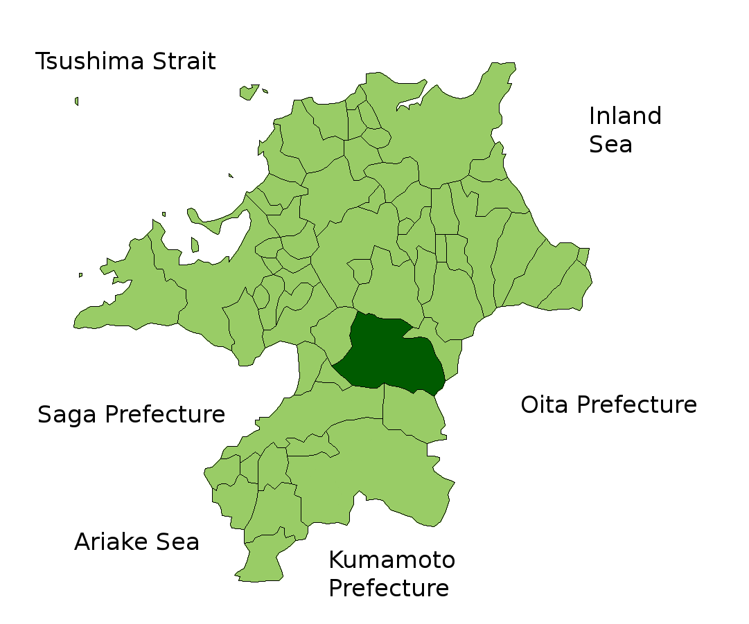 Location Map of Asakura in Fukuoka Prefecture, Japan